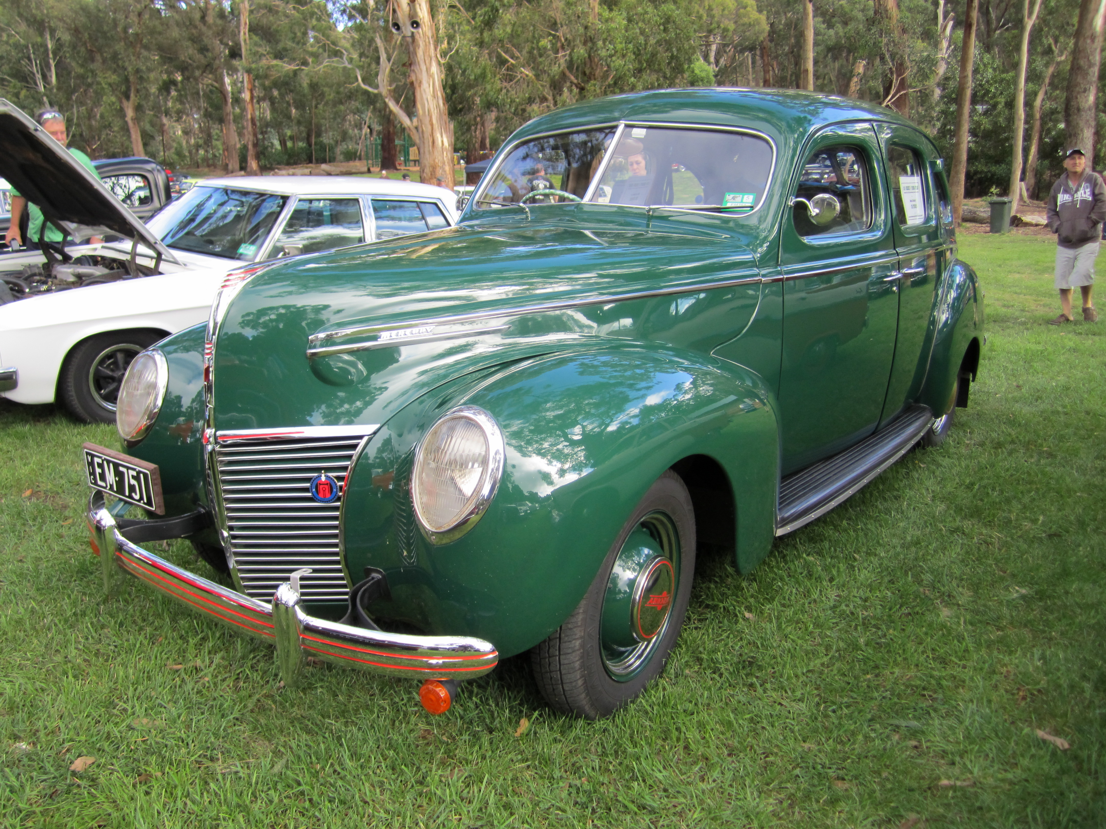 The first of the Mercurys; Edsel Ford introduced the 'Mercury' in 1938 as a more upmarket car than the Ford. It was also longer and wider. They had a more powerful 239 cu in Flathead V8 too.